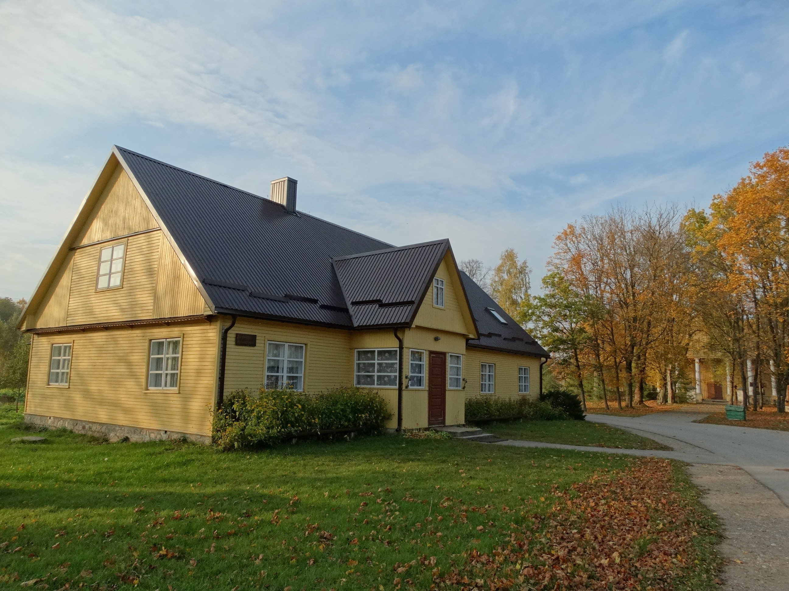 Comforting Home, Rumbonys, Alytus district, Lithuania